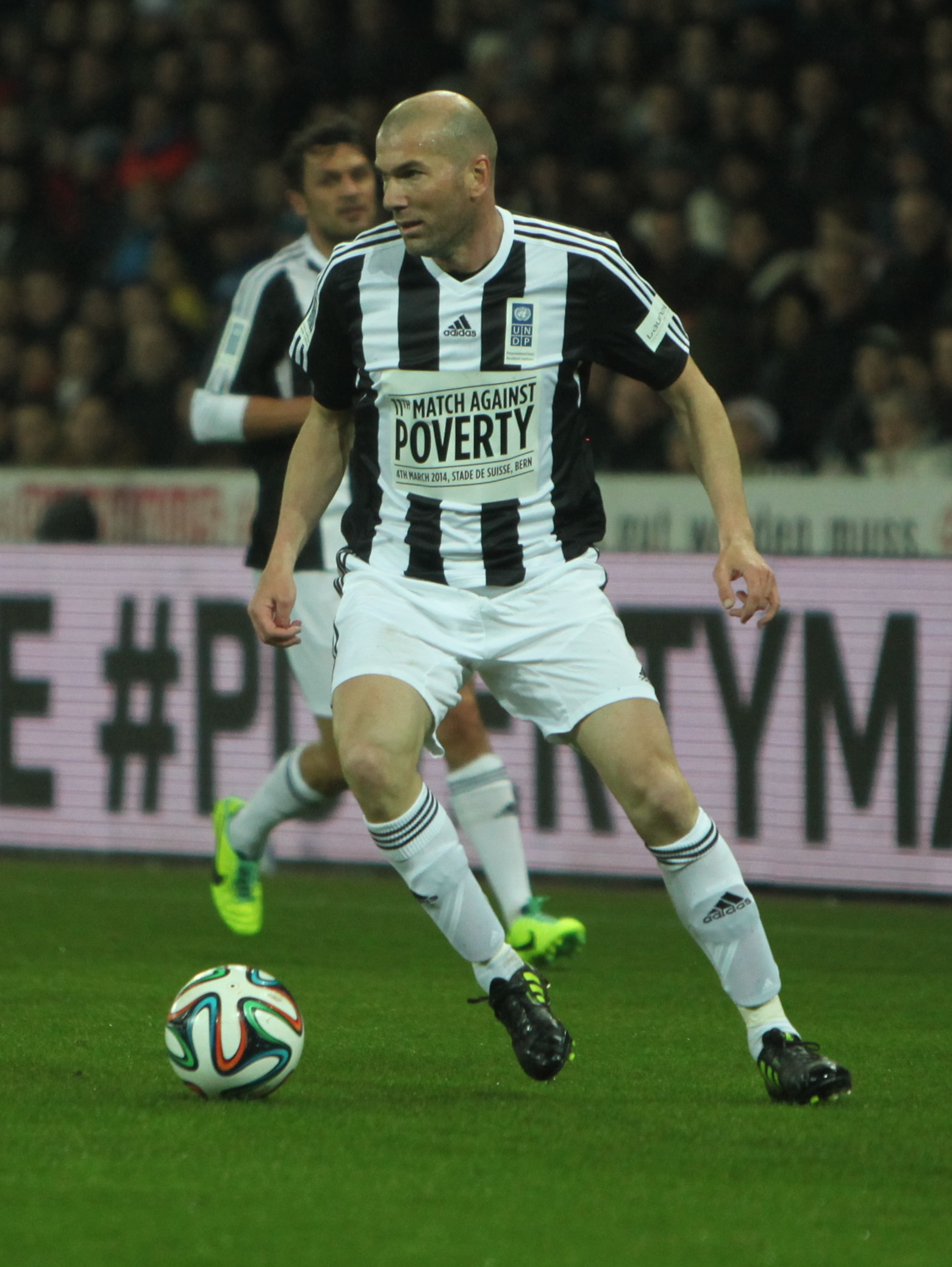 Football against poverty 2014 - Zinedine Zidane Zidane